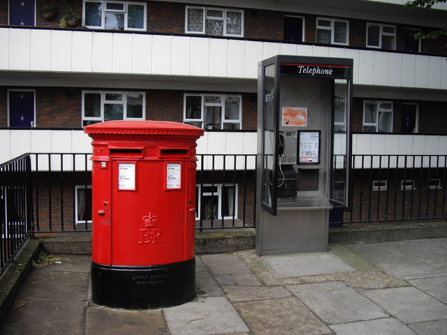 Postbox and Public Telephone in Cumberland Street